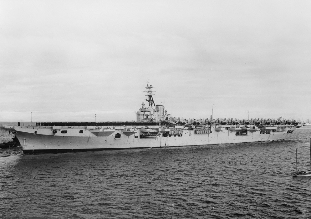 PORT SIDE VIEW OF THE AIRCRAFT CARRIER HMAS SYDNEY (III) PREPARING TO COME ALONGSIDE AFTER HER DELIVERY VOYAGE. NOTE THE TYPE 960 AIR SEARCH RADAR AT THE MASTHEAD, TYPE 293Q AIR/SURFACE SEARCH RADAR JUST BELOW IT AND TYPE 277Q HEIGHT FINDING RADARS ABOVE THE BRIDGE AND BEHIND THE FUNNEL. 40MM BOFORS AA GUNS ARE MOUNTED IN SPONSONS DOWN HER SIDE. SHE IS CARRYING A DECK CARGO OF SEA FURY AND FIREFLY AIRCRAFT COCOONED AS AN ANTI CORROSION MEASURE DURING THE VOYAGE. THE SHIP'S COMPANY ARE MANNING THE SIDE FOR ENTERING PORT.